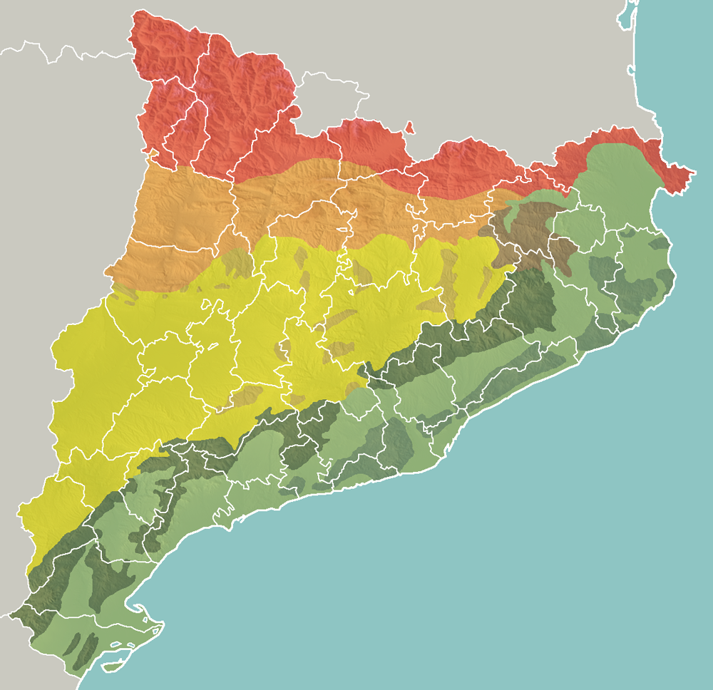 Geomorphologic map of Catalonia: Pyrenees Pre-Pyrenees Catalan Central Depression Smaller mountain ranges of the Central Depression Catalan Transversal Range Catalan Pre-Coastal Range Catalan Coastal Range Catalan Coastal Depression and other coastal and pre-coastal plains